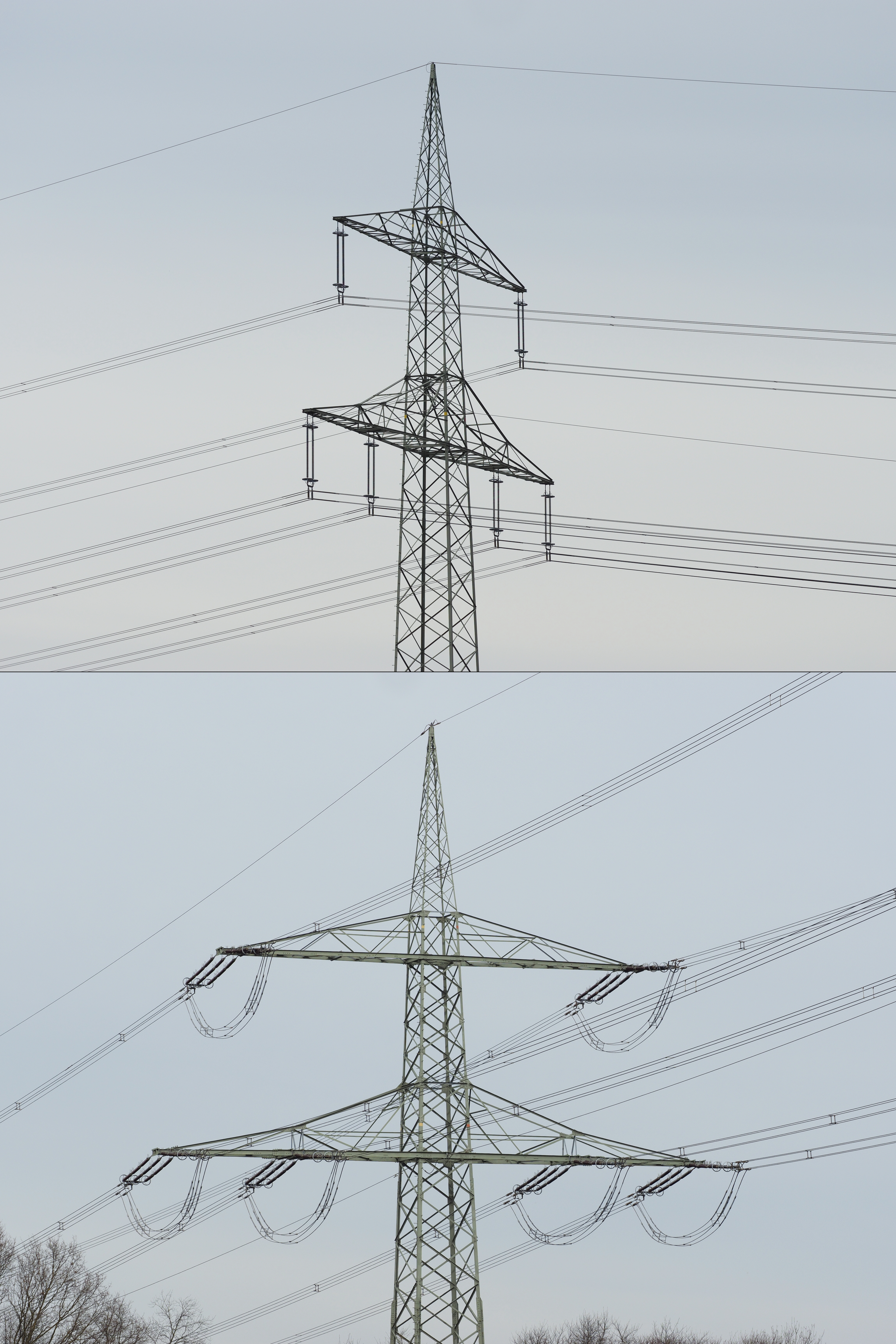 Rommerskirchen–Hoheneck 380 kV power line, comparison of suspension and anchor pylons, near Geisingen (Freiberg am Neckar), Germany